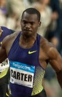 Nesta Carter during 2010 Memorial Van Damme